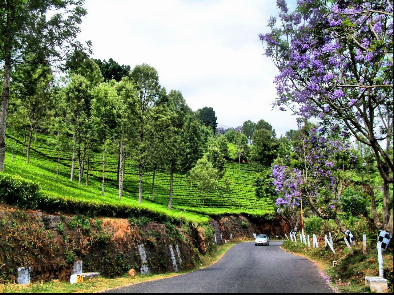 Tea gardens in Conoor